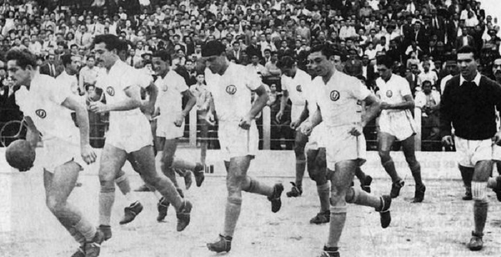 Team of Universitario de Deportes (1950s).